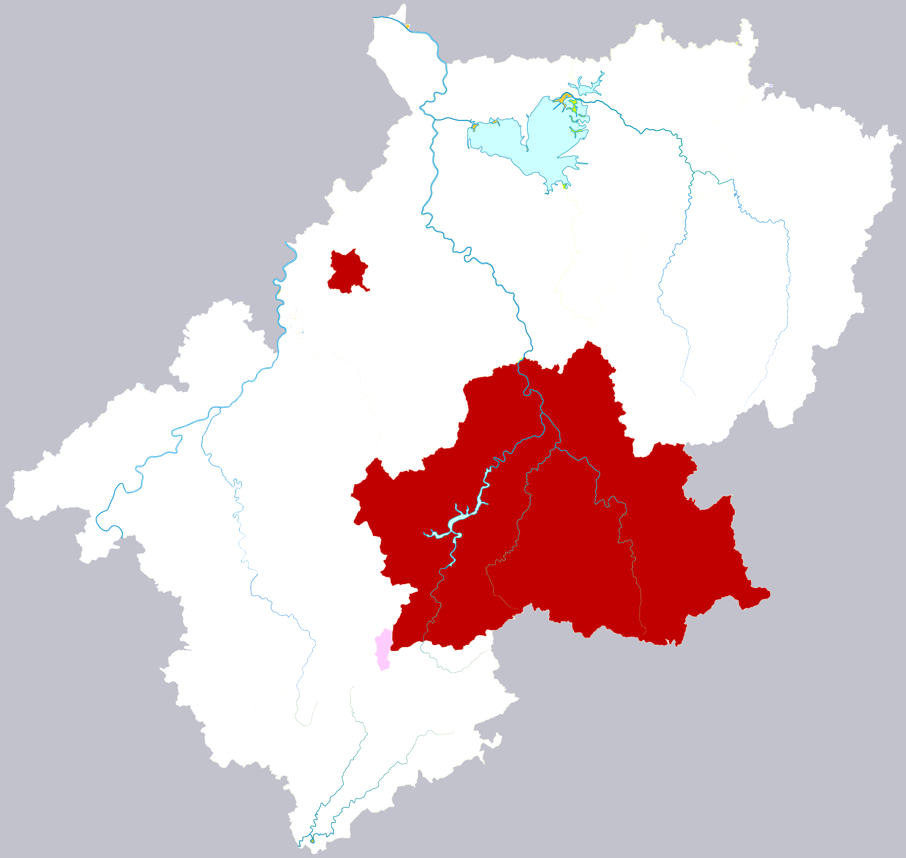 Location of Ningguo county-level city in Xuancheng city, China